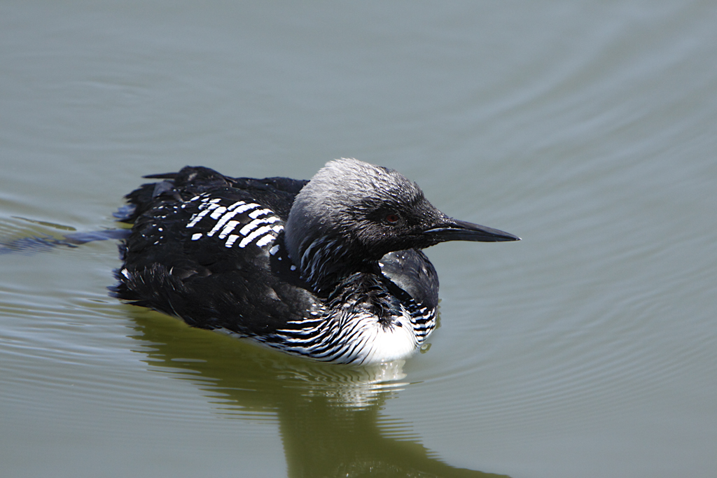 Pacific Loon Gavia pacifica in Moss Landing harbor, California.